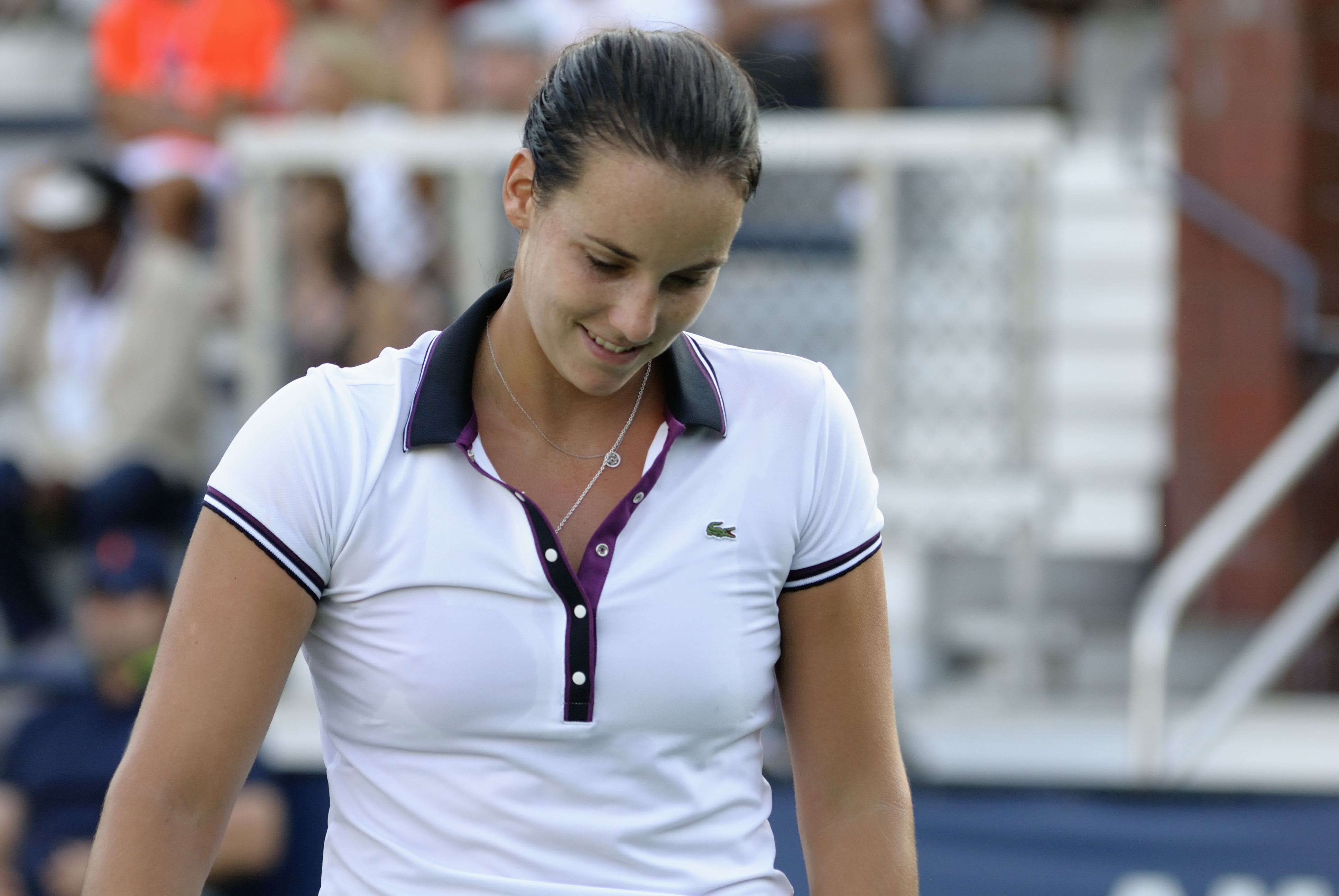 Aussie Jarmila at the 2011 USO